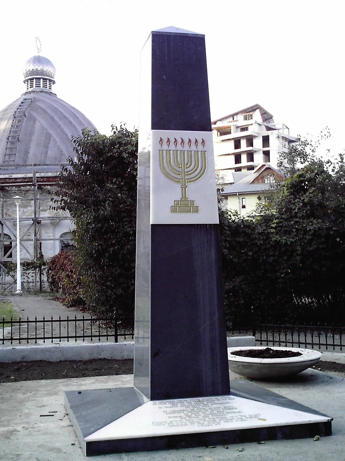 Victims of Iași Pogrom Monument, Iași (Iassy), RomaniaRomână: Monumentul Victimelor Pogromului de la Iaşi, Iași, Romania